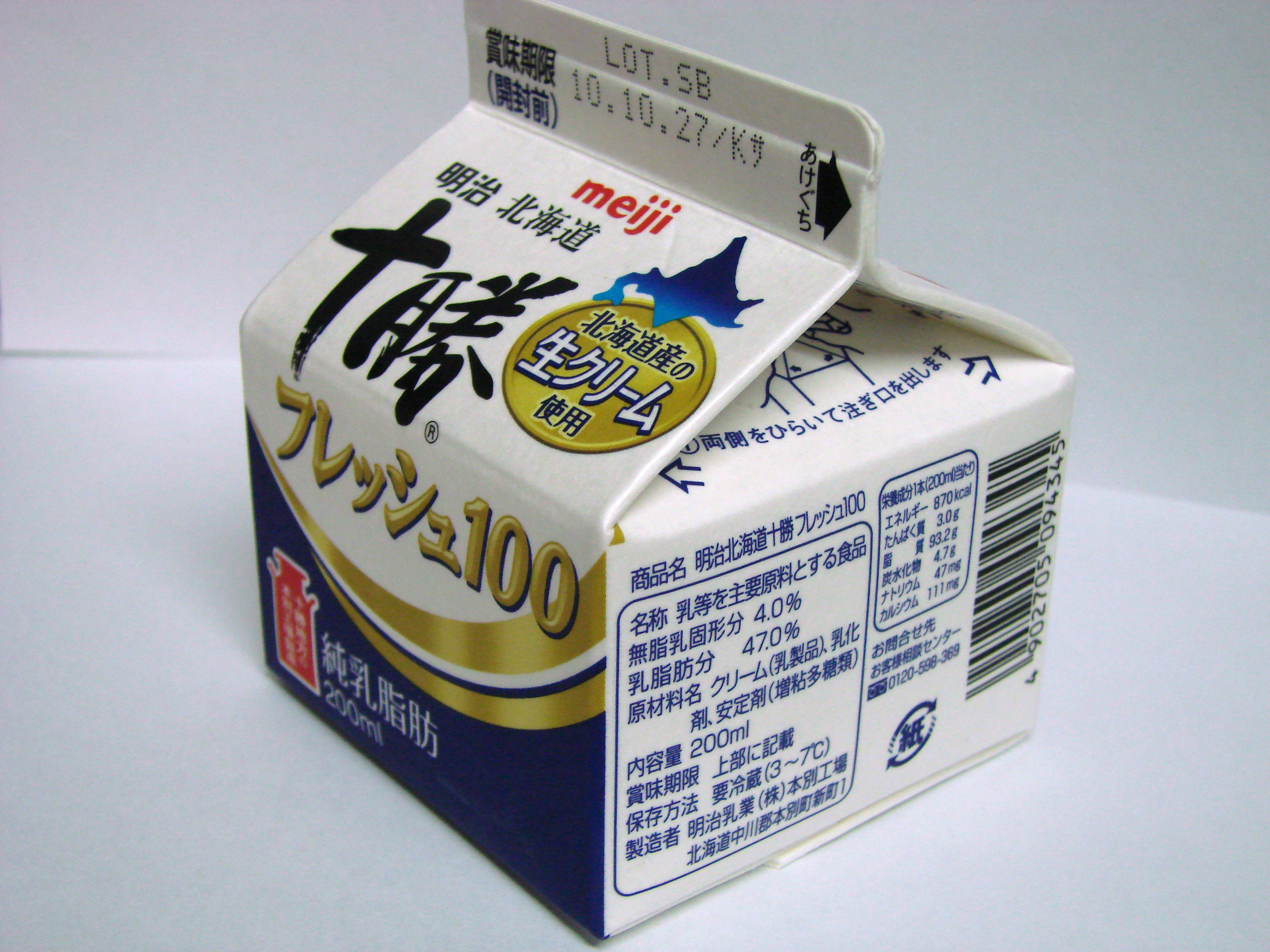 Meiji brand, Fresh Hokkaido cream - Japan (200ml, 47% butterfat)